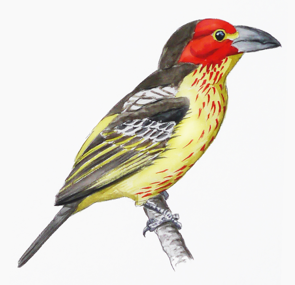 Vieillot's Barbet